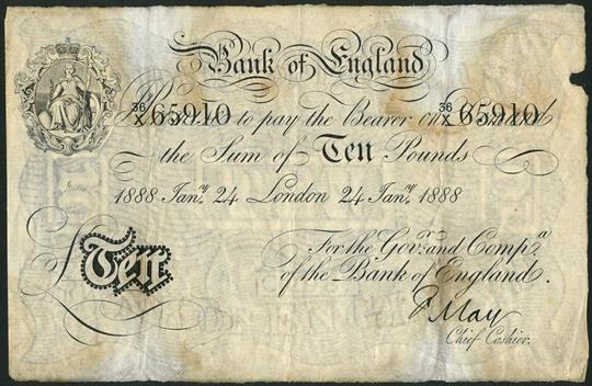 Bank of England, Frank May, £10, London, 24 January 1888, serial number 36/X 65910, black and white, ornate crowned vignette of Britannia at top left, value in black tablet at low left